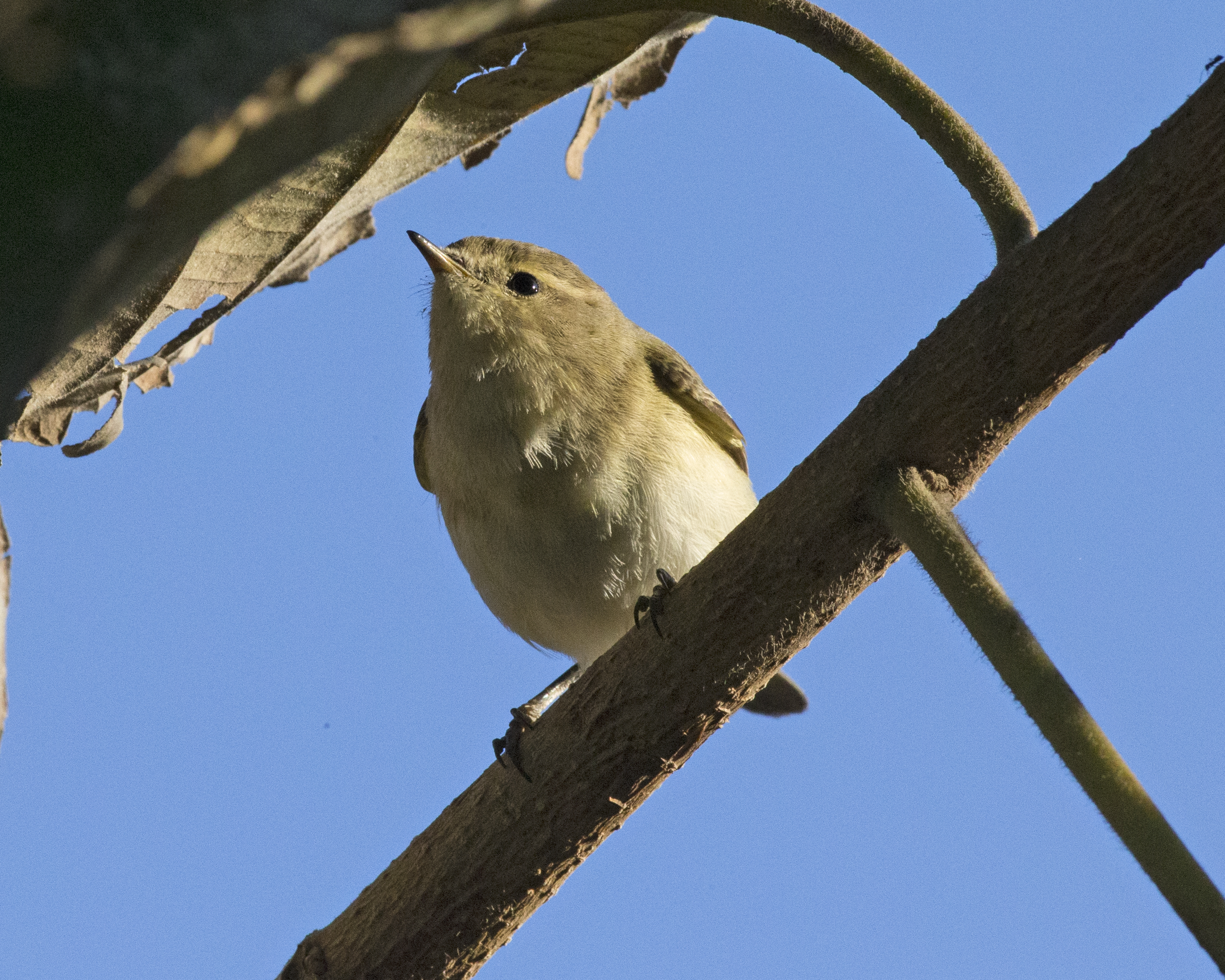 Brown Woodland Warbler (Phylloscopus umbrovirens), Lalibella, Ethiopia